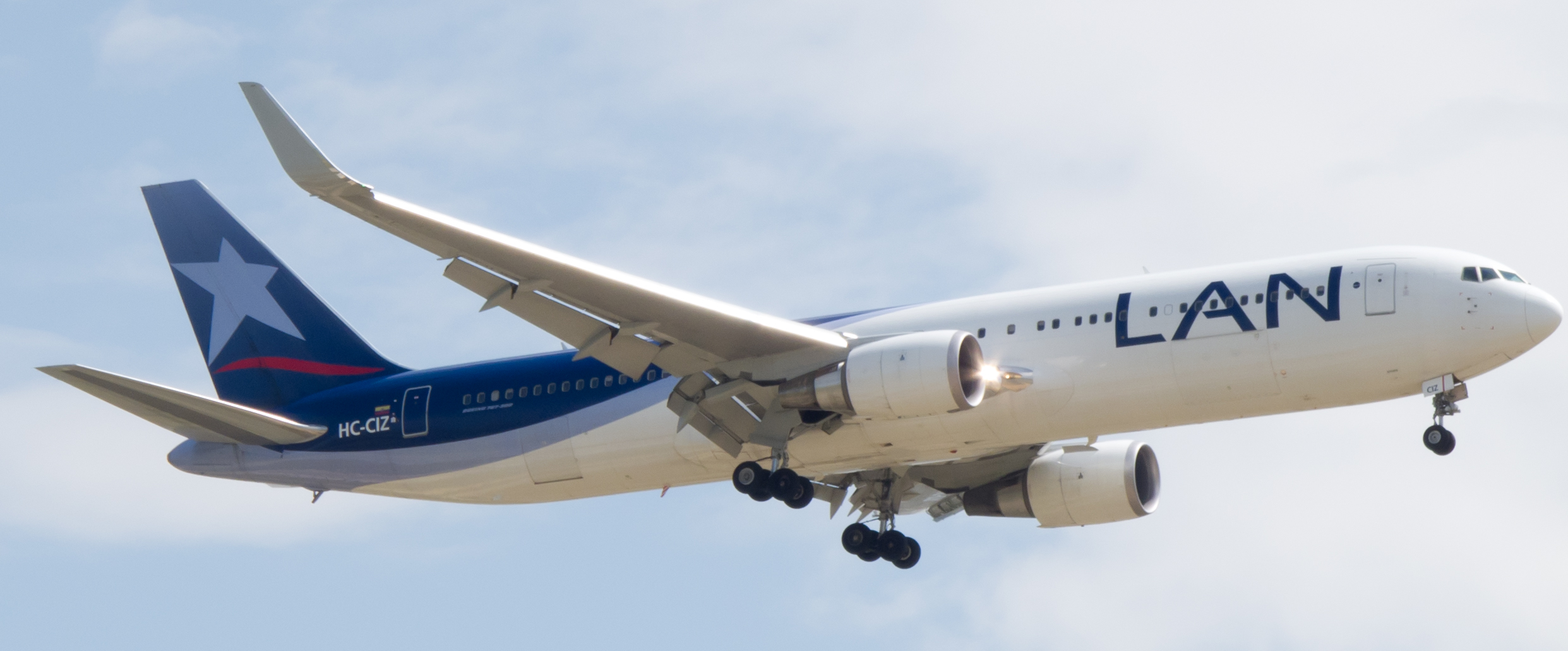 Boeing 767-316-ER - LAN Ecuador